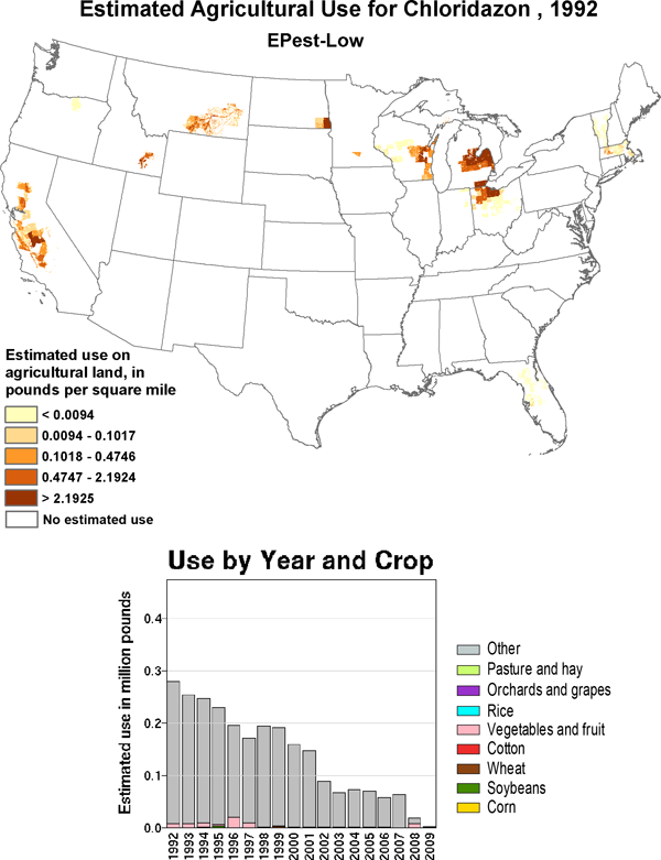 Chloridazon map of use, USA, 1992 (estimated)